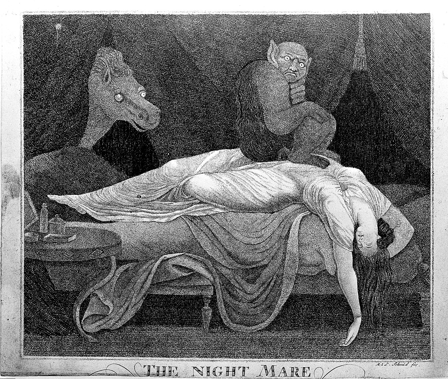 Depiction of nightmare. 'The Nightmare'. Iconographic Collections Keywords: Sleep Disorders; M.Z.D. Schmid